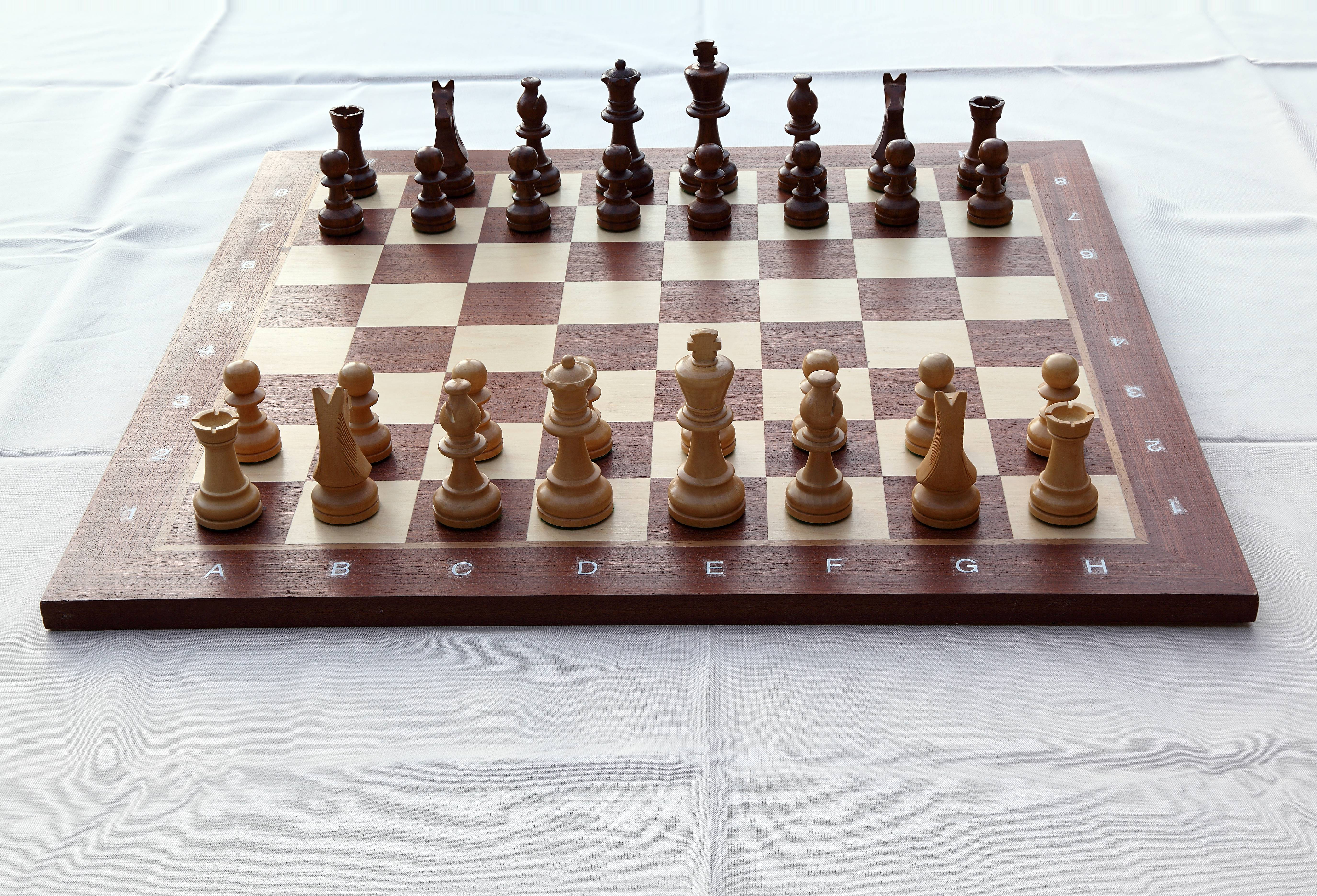 Chess board with chess set in opening position; Focus stacking with freeware CombineZP This image was created with CombineZP.